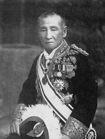 Torao Komeda